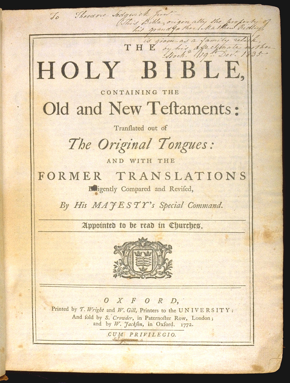 Title page of The Holy Bible, King James version, 1772.